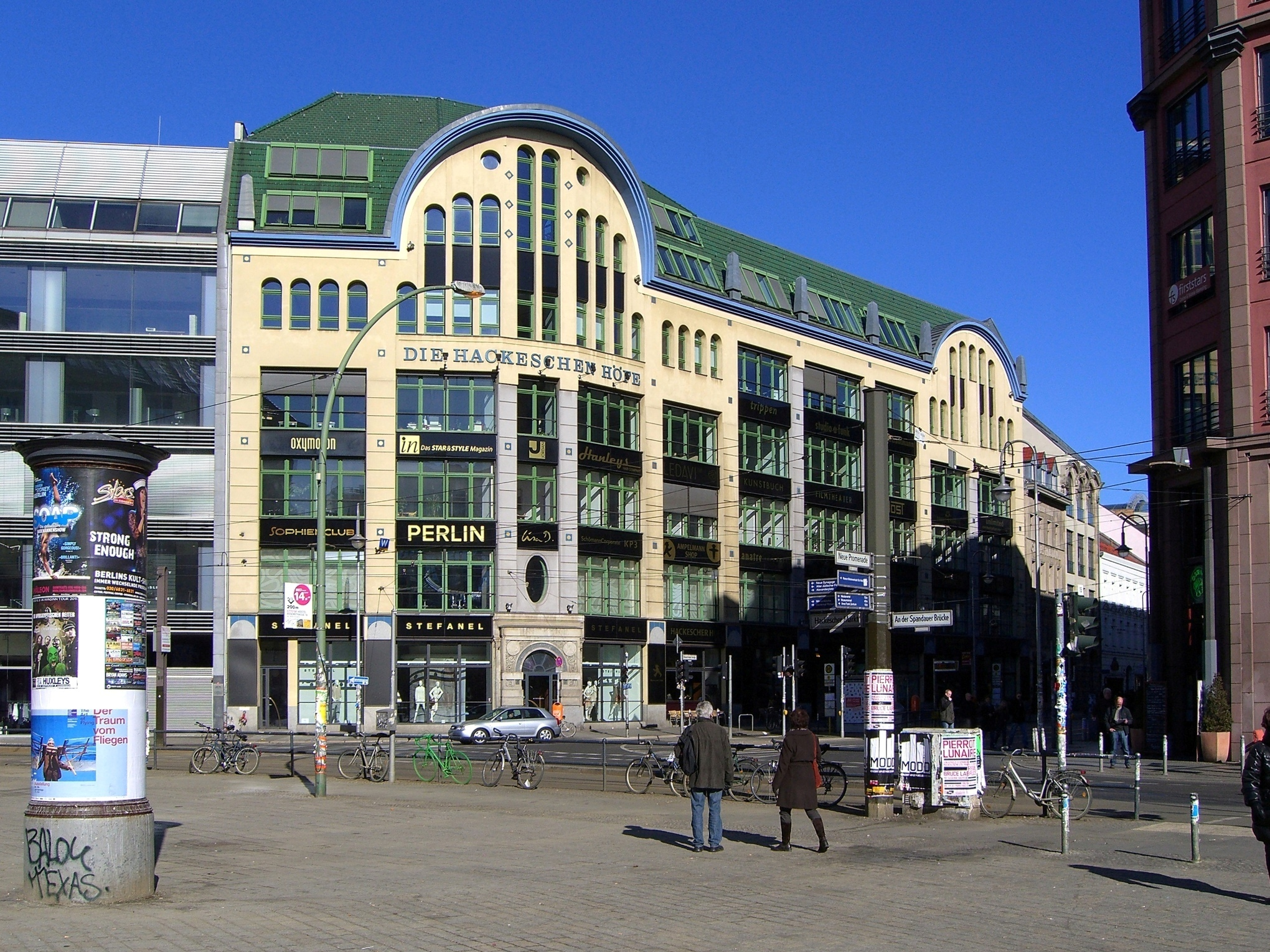 "Hackesche Höfe" (yards of Graf von Hacke) in Berlin-Mitte.